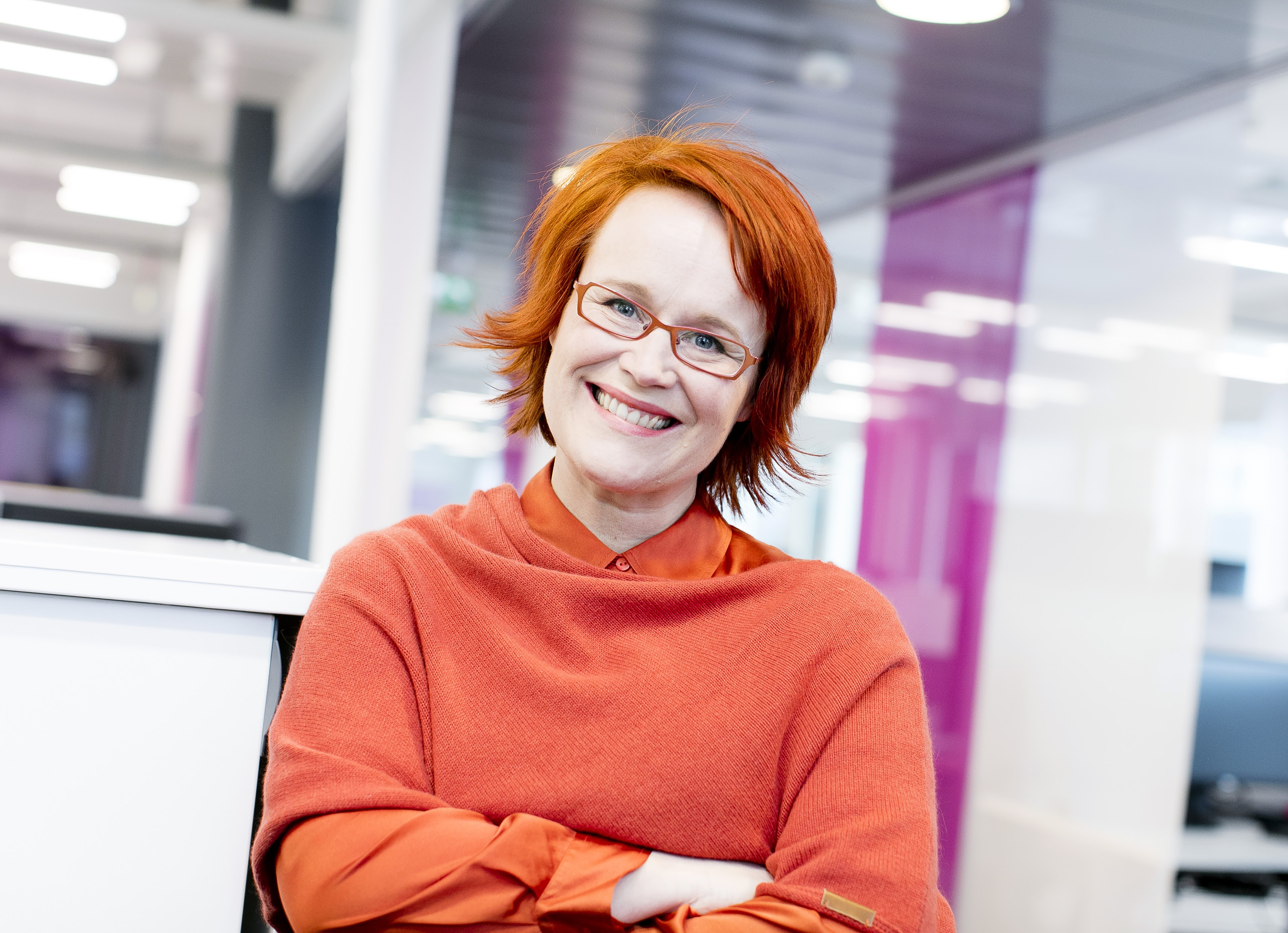 Kati Sulin